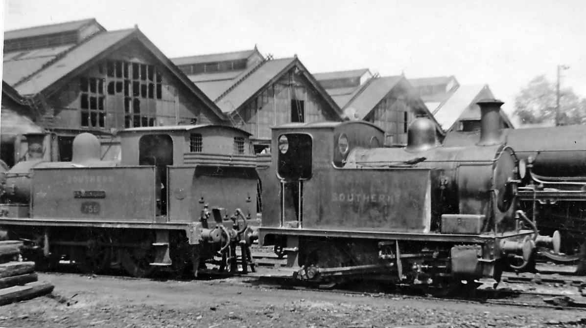 Unusual diminutive tank engines at Eastleigh Locomotive Depot. For work in and around Eastleigh Works and Depot, also in Southampton Docks and elsewhere, there were some odd engines such as these. On the left is ex-Plymouth, Devonport & SW Junction 0-6-0T No. 756 'A.S. Harris' (built 12/1907, withdrawn 10/51); on the right Drummond C14 class 0-4-0T No. 3744 (built 1/1907, withdrawn as BR No. 30589 in 6/57). Eastleigh Locomotive Depot was one of the largest on the SR: in 1946 its allocation was 131 engines of extraordinary variety in age and origin:- 17 4-6-0, 31 4-4-0, 7 2-6-0, 19 0-6-0, 15 0-4-2, 1 0-8-0T, 13 0-6-0T, 23 0-4-4T and 5 0-4-0T.